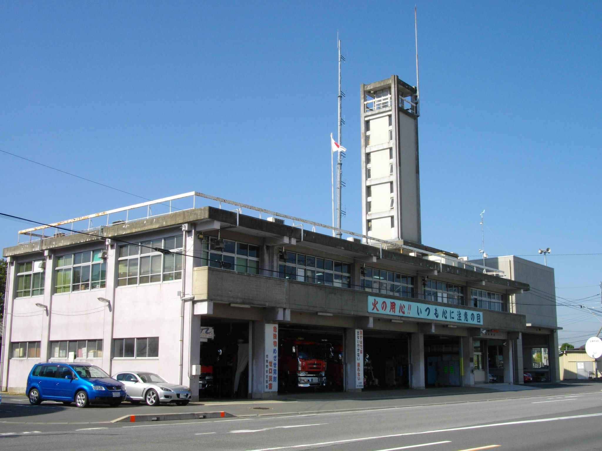 Tsuchiura City Fire Department